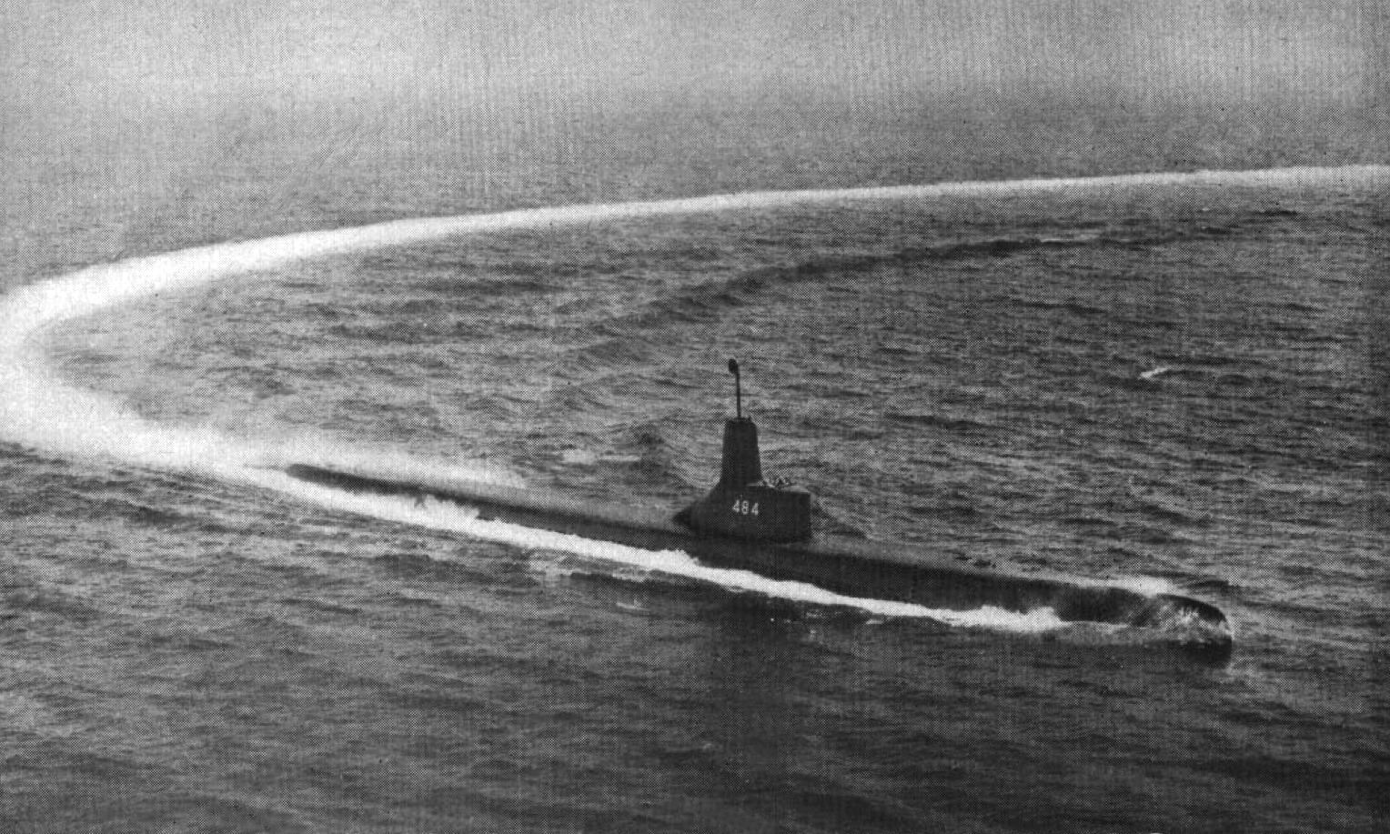 The U.S. Navy submarine USS Odax (SS-484) following her "GUPPY I" refit at the Portsmouth Naval Shipyard. Following the Second World War, the U.S. Navy studied German Type XXI submarines, which featured a greatly increased underwater speed and endurance. The first restult was the "Greater Underwater Propulsive Power Program" (GUPPY) reconstruction of Odax and Pomodon (SS-486) in 1947. Both submarines were received a more streamlined hull, a new streamlined sail, and a double amount of batteries.